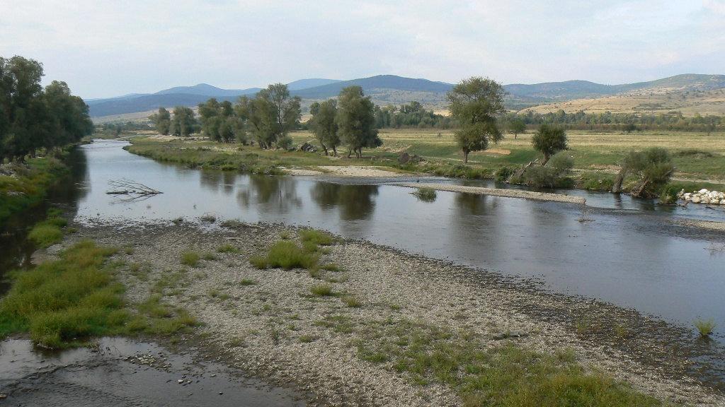 River Topolnitsa, as seen from the "Thracia" autobahn, Bulgaria